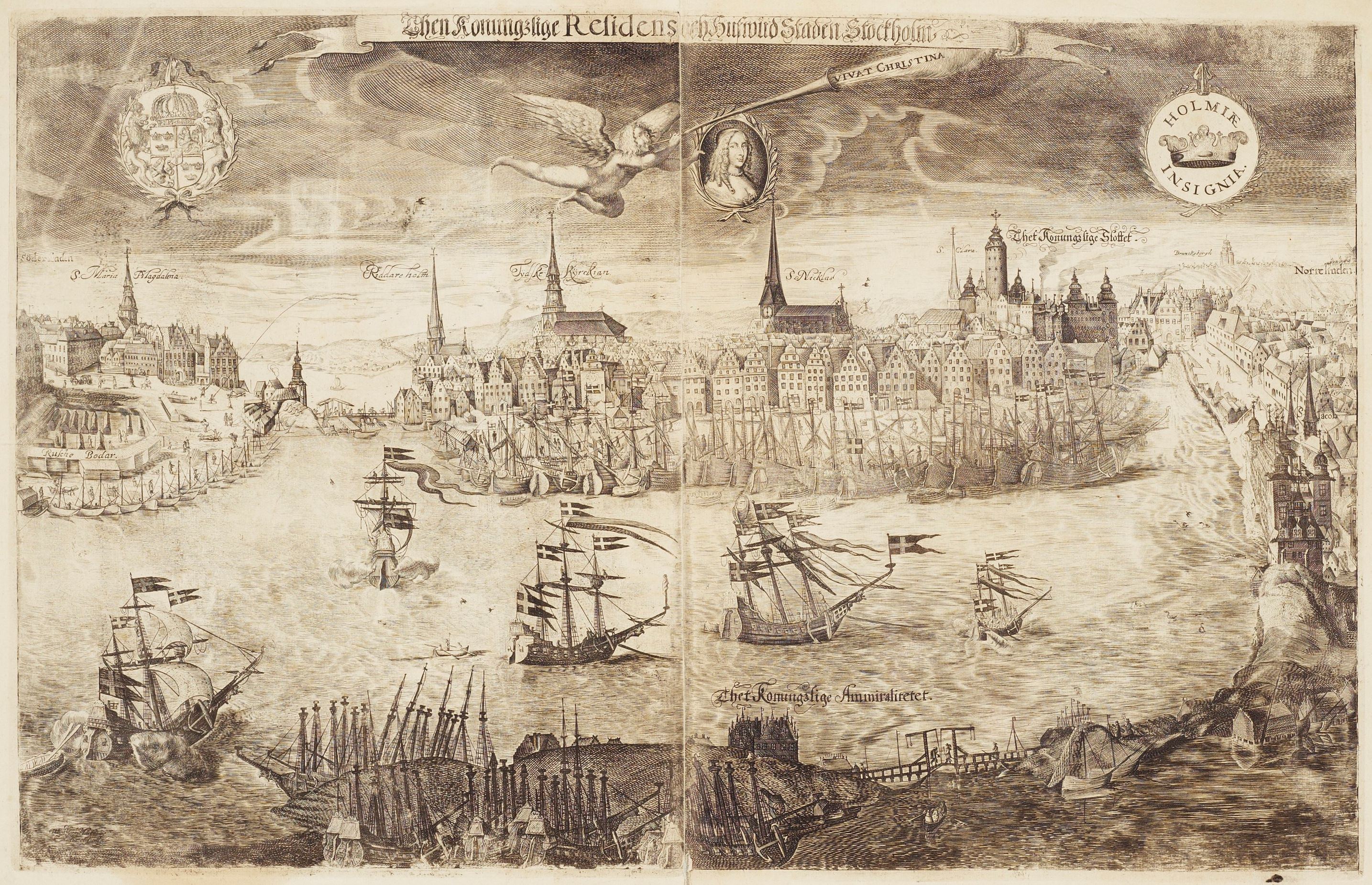 "View over Stockholm from the east." Made for the coronation of Queen Kristina in 1650. Wolfgang Hartmann 1650.